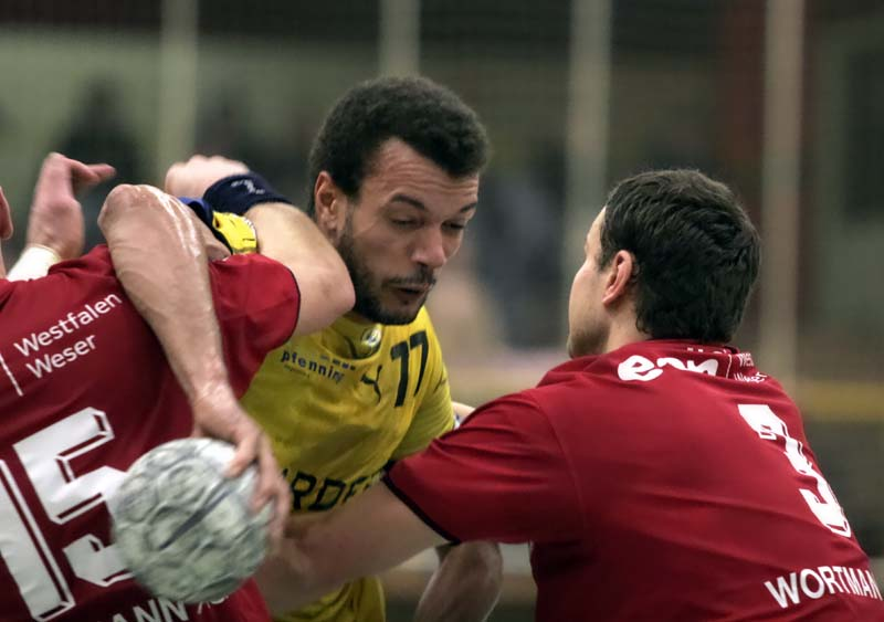 Christian Caillat, on November 28th 2006 in the Weststadt Hall in Bensheim (Germany), during the game Rhein Neckar Löwen - TuS Nettelstedt-Lübbecke.